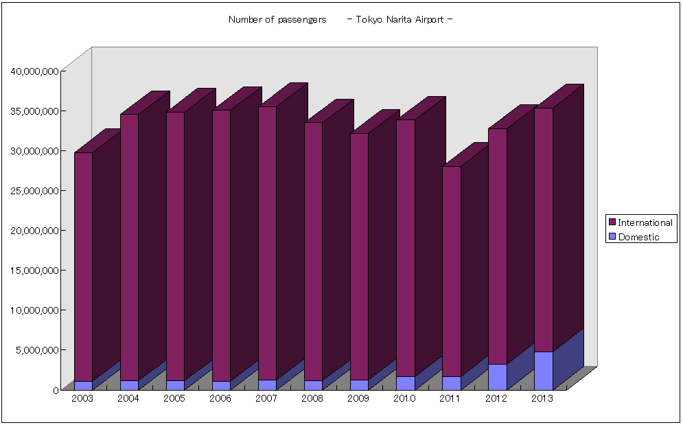 Number of passengers at Tokyo Narita Airport.